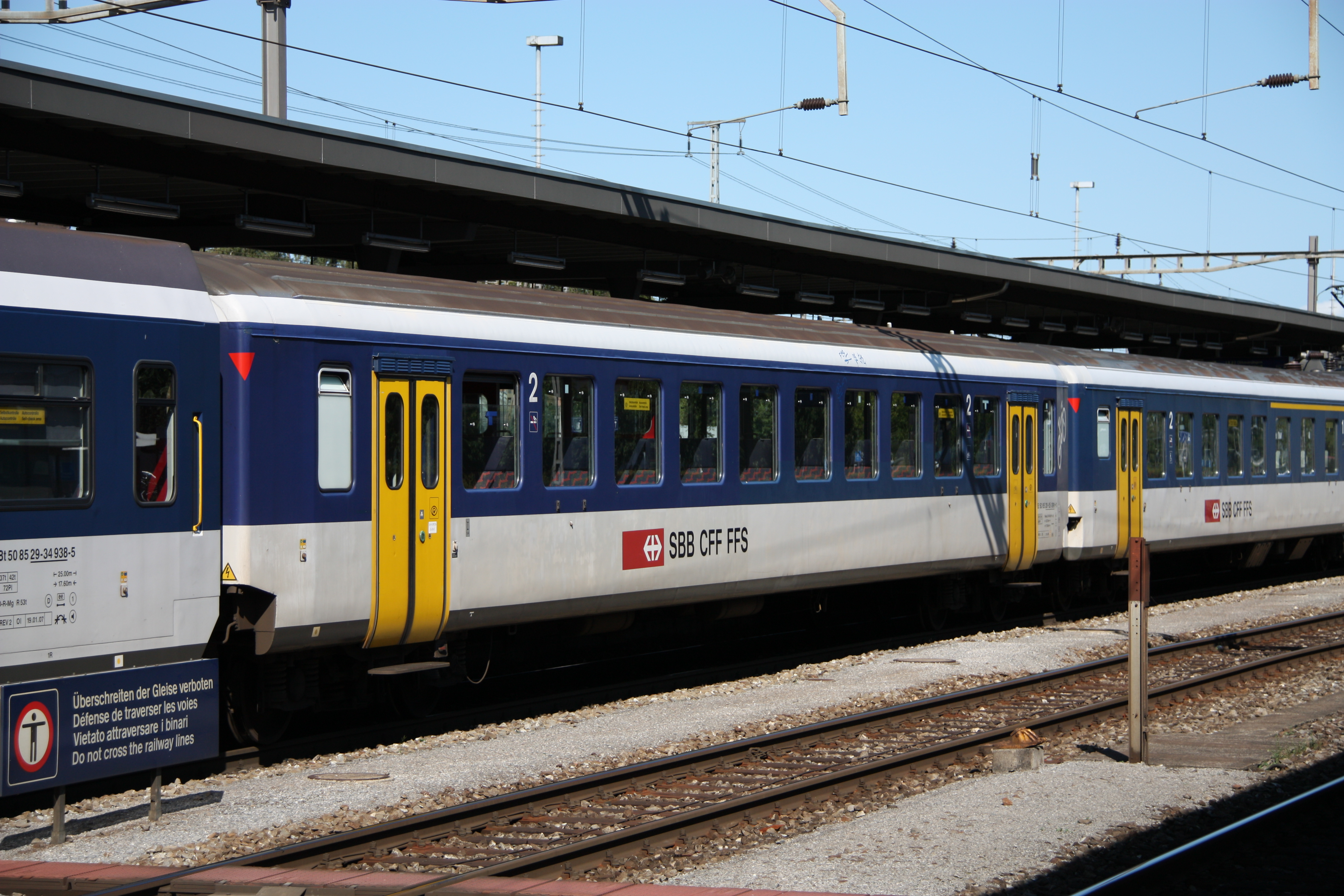 Rotkreuz train stationNPZ with B EW IIS26 7057 arrives from Aarau and departs as S26 7362 to Othmarsingen